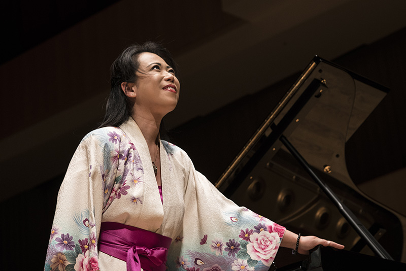 Maki Namekawa in Aarhus Denmark 2017